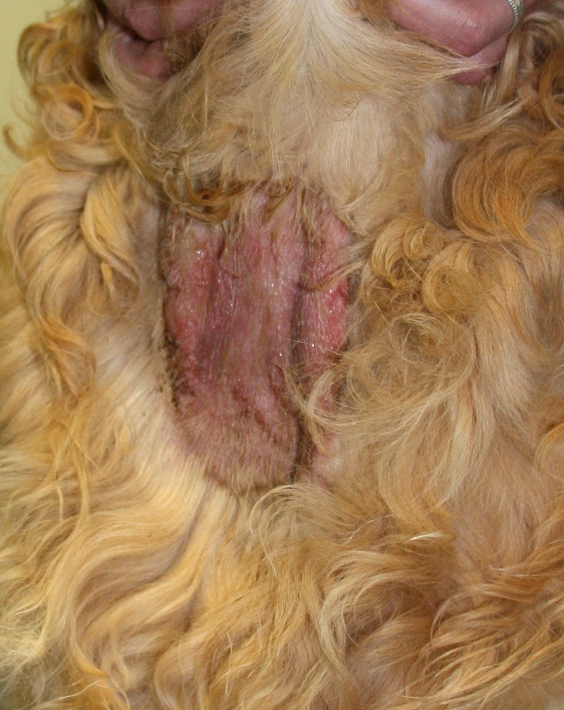 superficial pyotraumatic dermatitis ("hot spot") in a dog (Golden Retriever)